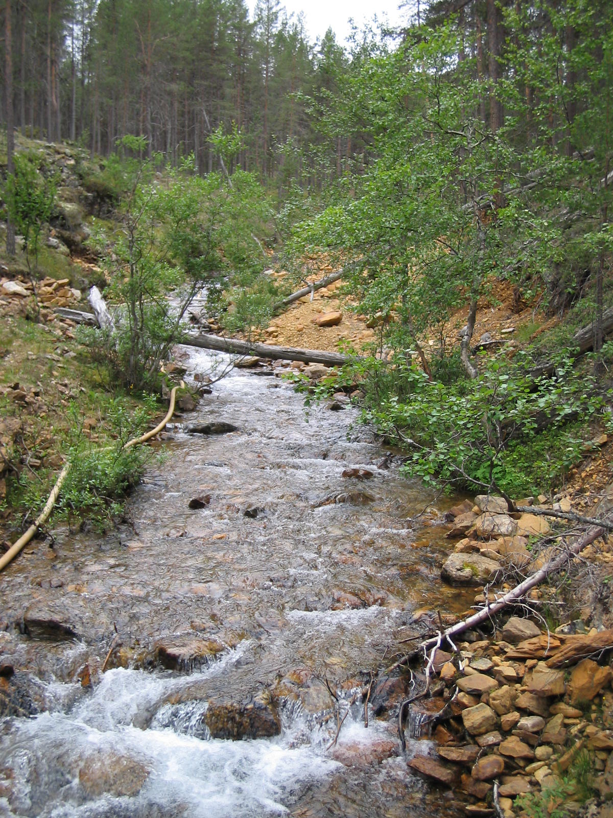 Lemmenjoki National Park, Finland, photo of the river